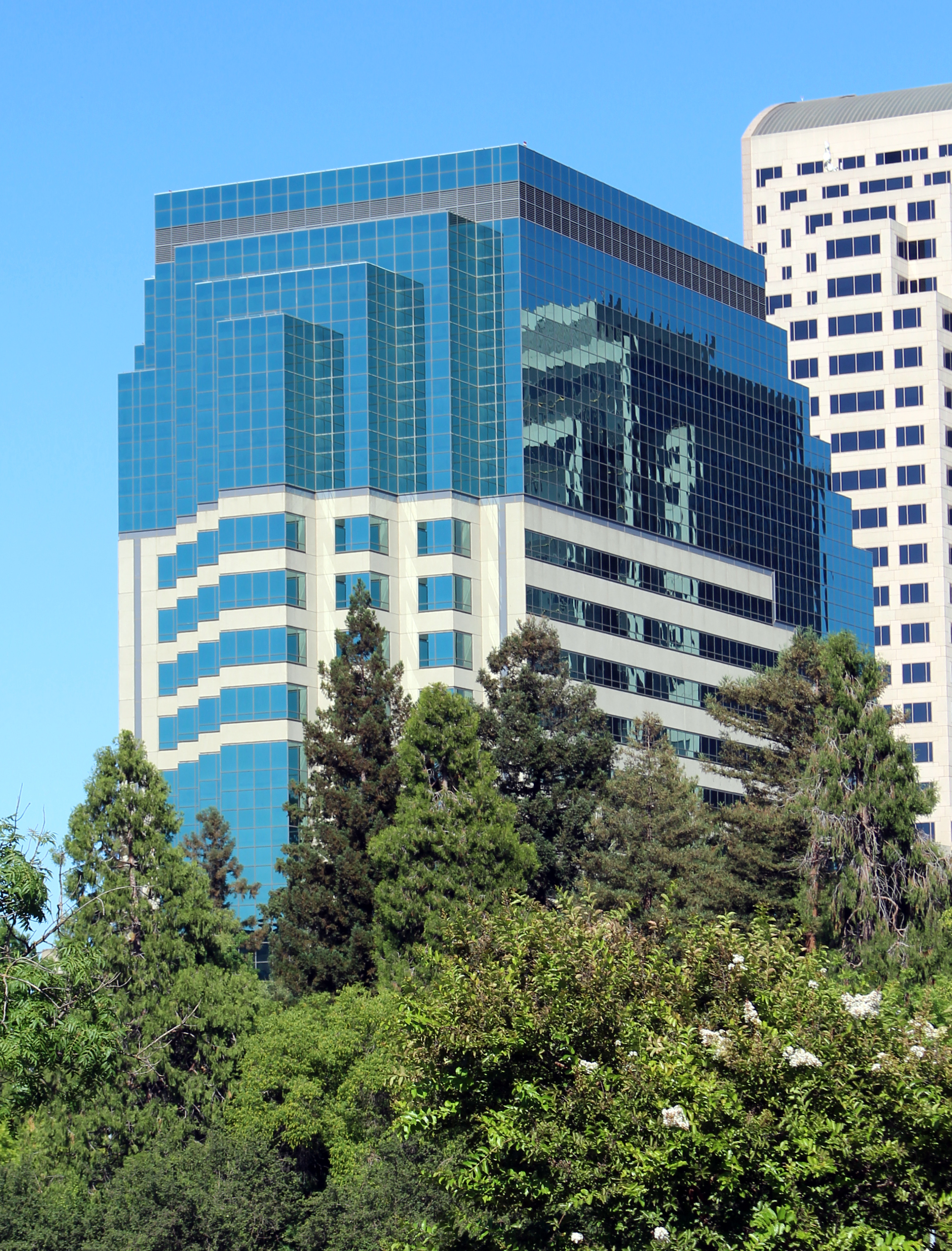 300 Capitol Mall in Sacramento, California. At the time this photo was taken, this building was home to the main offices of the California Department of Insurance and the California State Controller. Photographed on July 3, 2020 by user Coolcaesar.